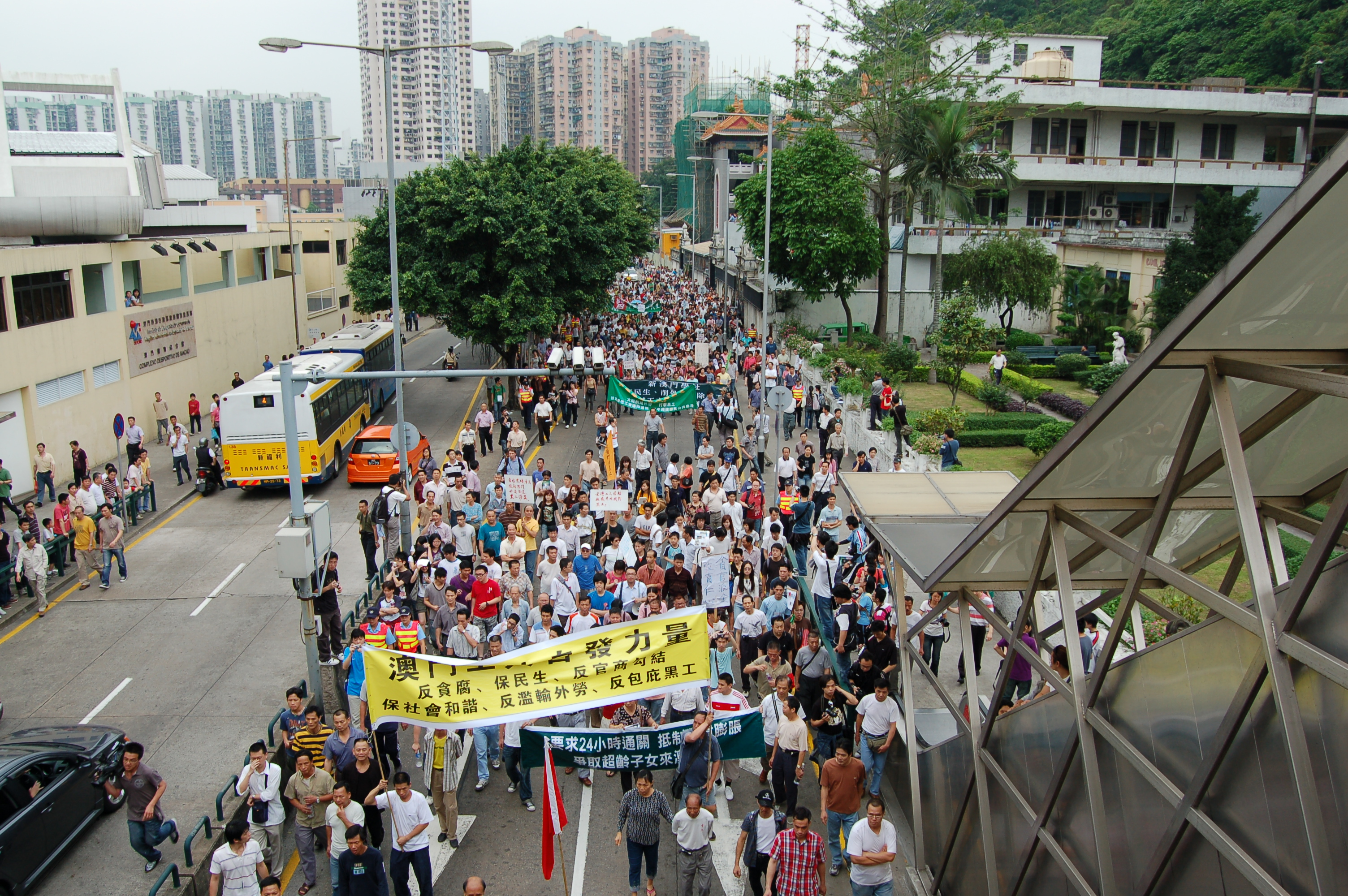 2008 Macau Labour Day March